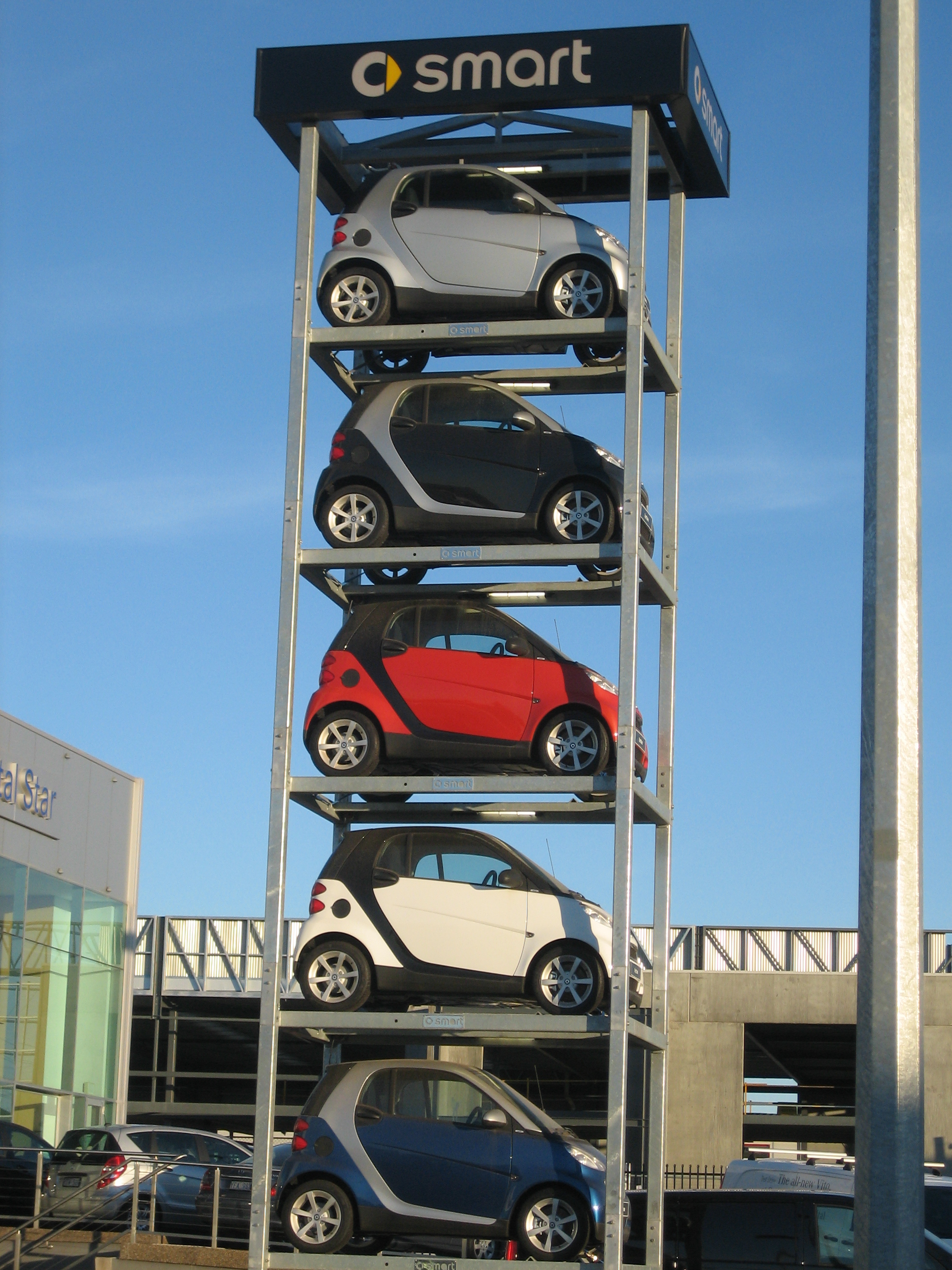 SMART cars stacked up in Fyshwick, Australian Capital Territory.